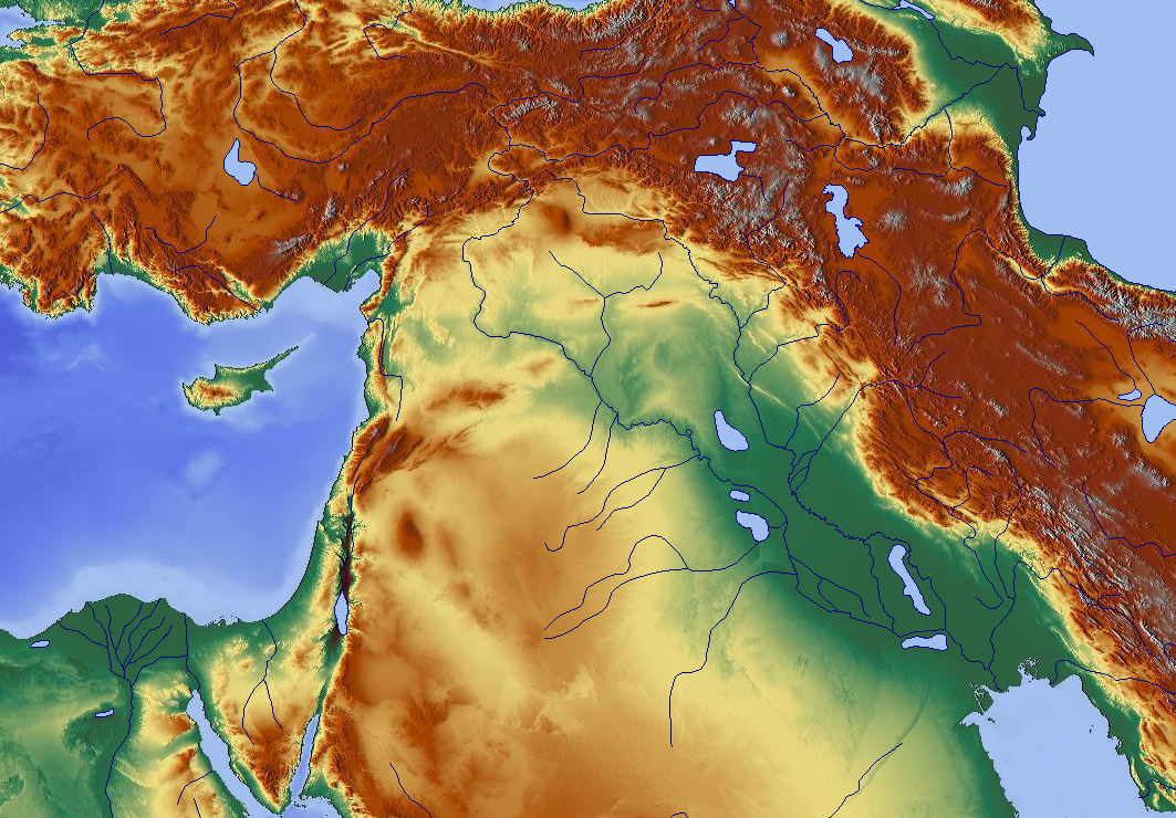 Blank relief map of Near East